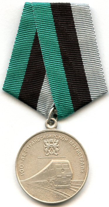 Jubilee Medal 100 Years of the Trans-Siberian Railway. 1901 - 2001. Commemorative medal of the Russian Federation.